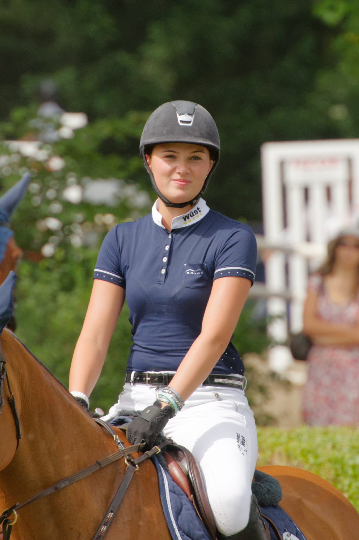 Internationales Pfingstturnier Wiesbaden 2014 The making of this document was supported by the Community-Budget of Wikimedia Germany.